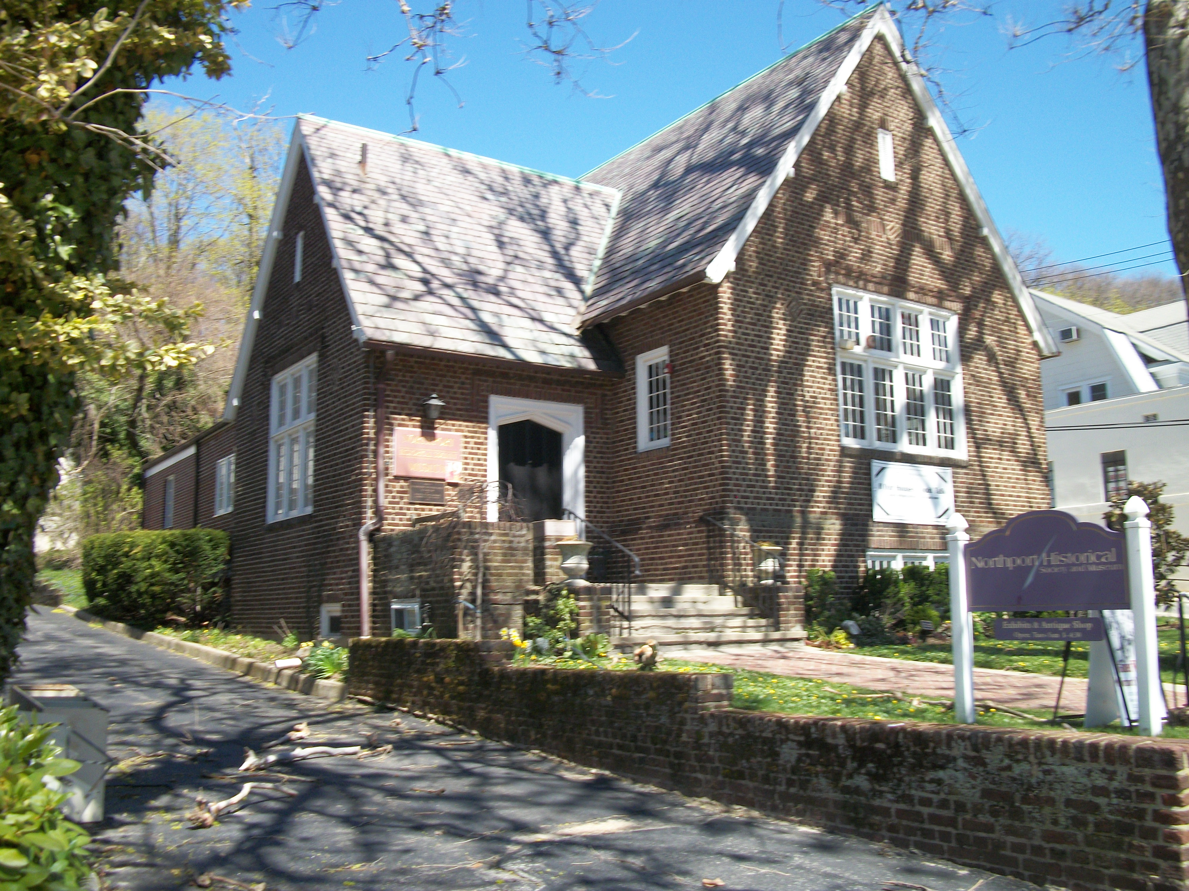 The historic Northport Public Library, which is now the headquarters for the Northport Historical Society Museum, in Northport, New York. This library is on the National Register of Historic Places.